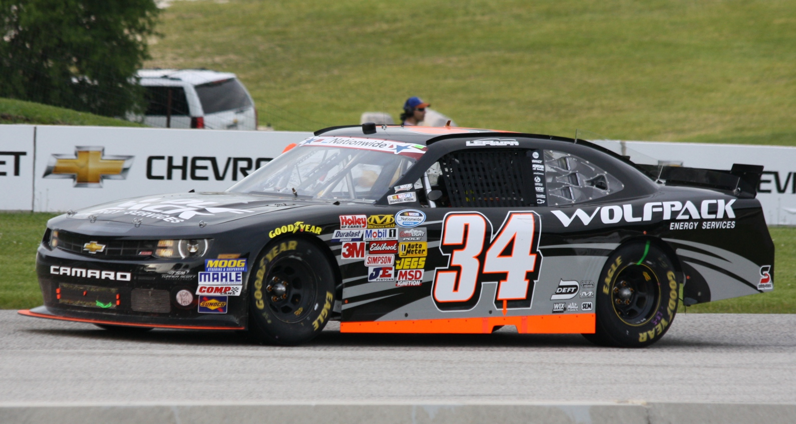 The NASCAR Nationwide car of James Buescher during the w:2013 Johnsonville Sausage 200 at Road America.